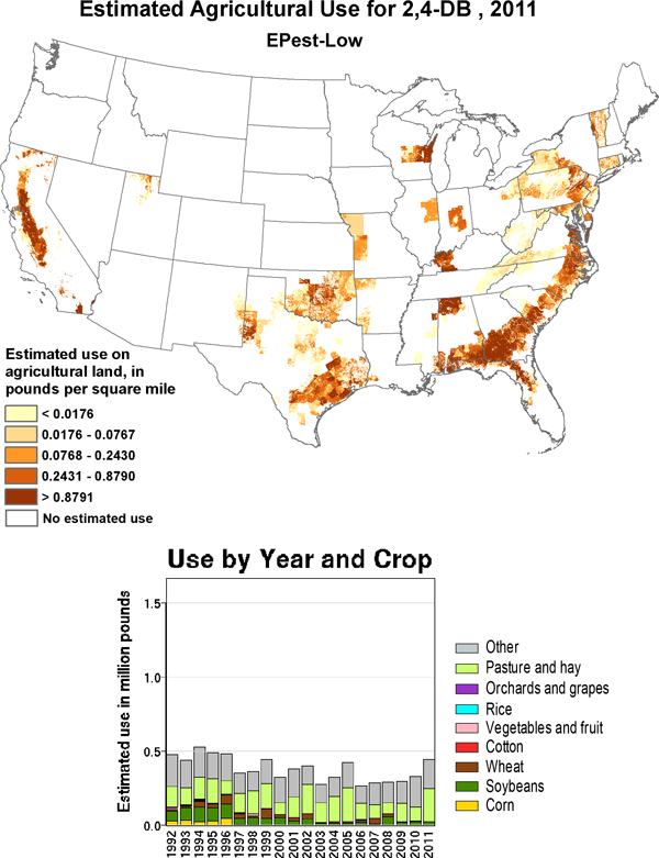 2,4-DB map of use, USA, 2011 (estimated)